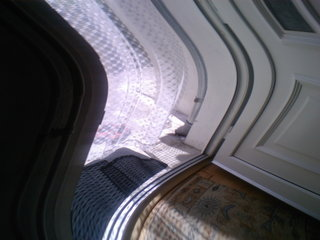 A camera phone being shaken during image capturing